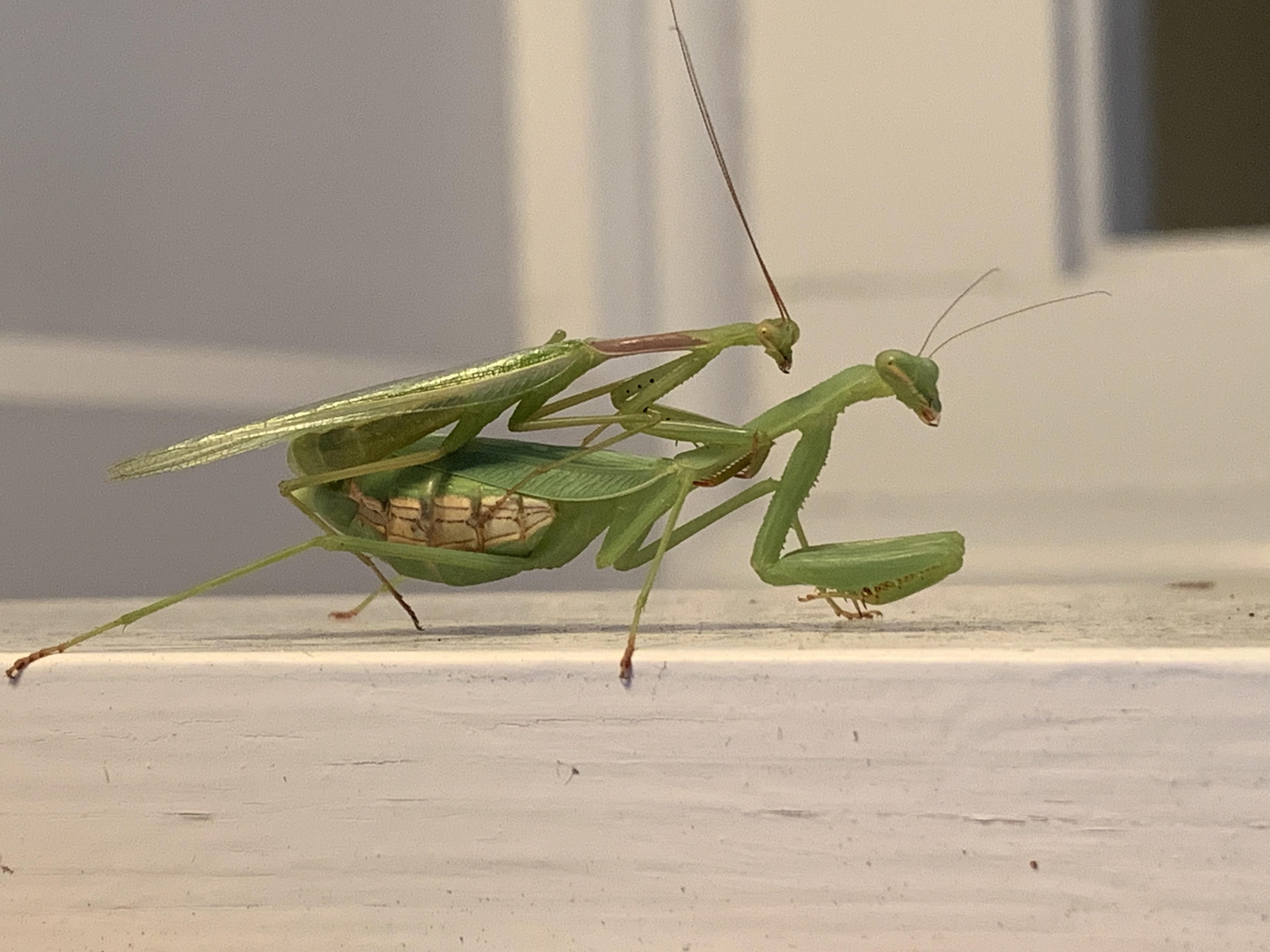 Male & Female South African Mantids (Miomantis Caffra) mating in Auckland, New Zealand. The female (below) is already visibly pregnant.